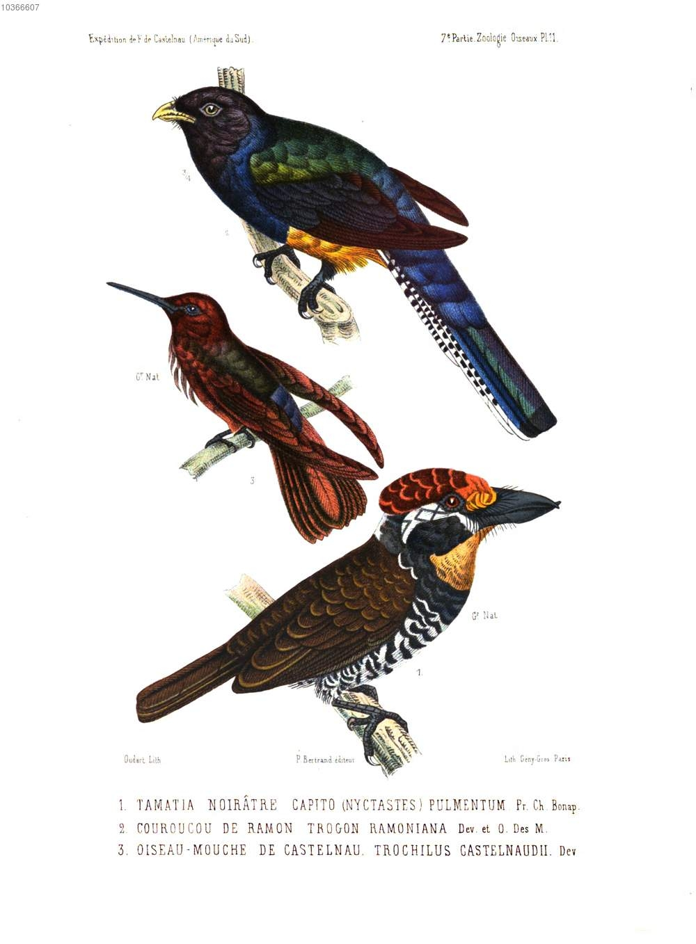 Bucco tamatia pulmentum Aglaeactis castelnaudii Trogon ramonianus